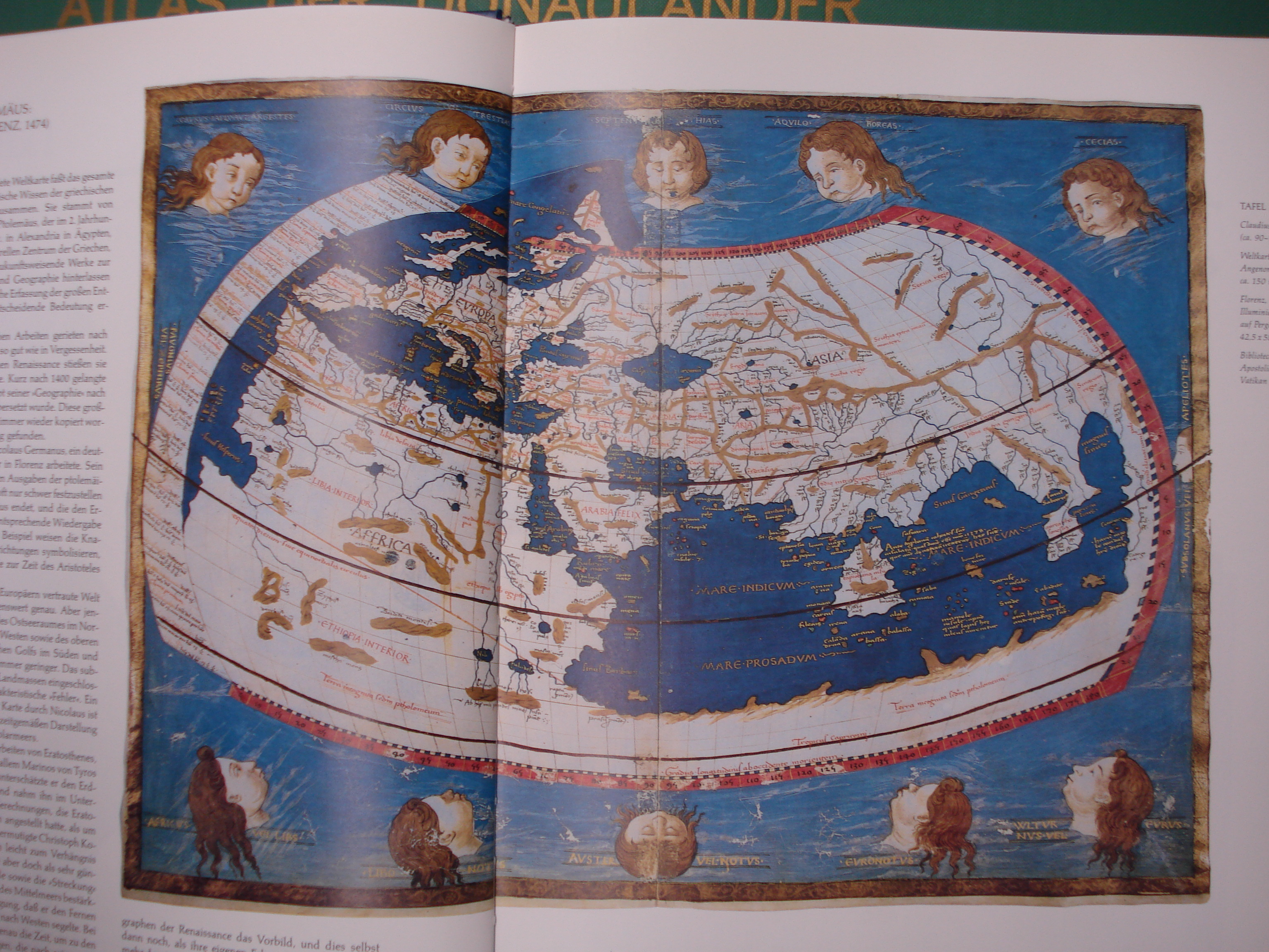 The world map from a 1474 Florentine Latin edition of Maximus Planudes's late-13th century rediscovered Greek manuscripts of Ptolemy's 2nd-century Geography.